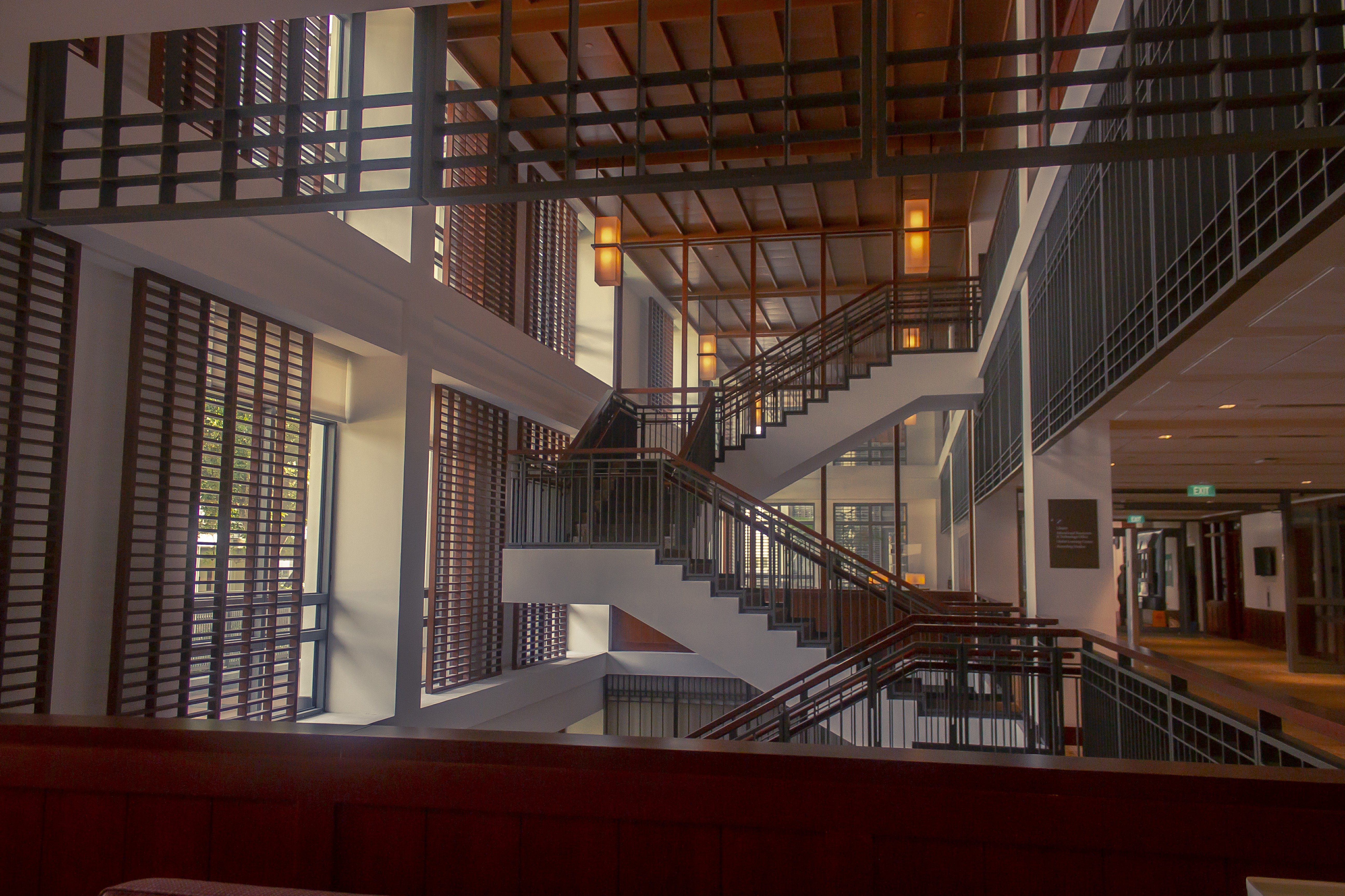 The library of Yale-NUS College, located in East Core. Yale-NUS is a liberal arts college founded by the Yale University and the National University of Singapore.